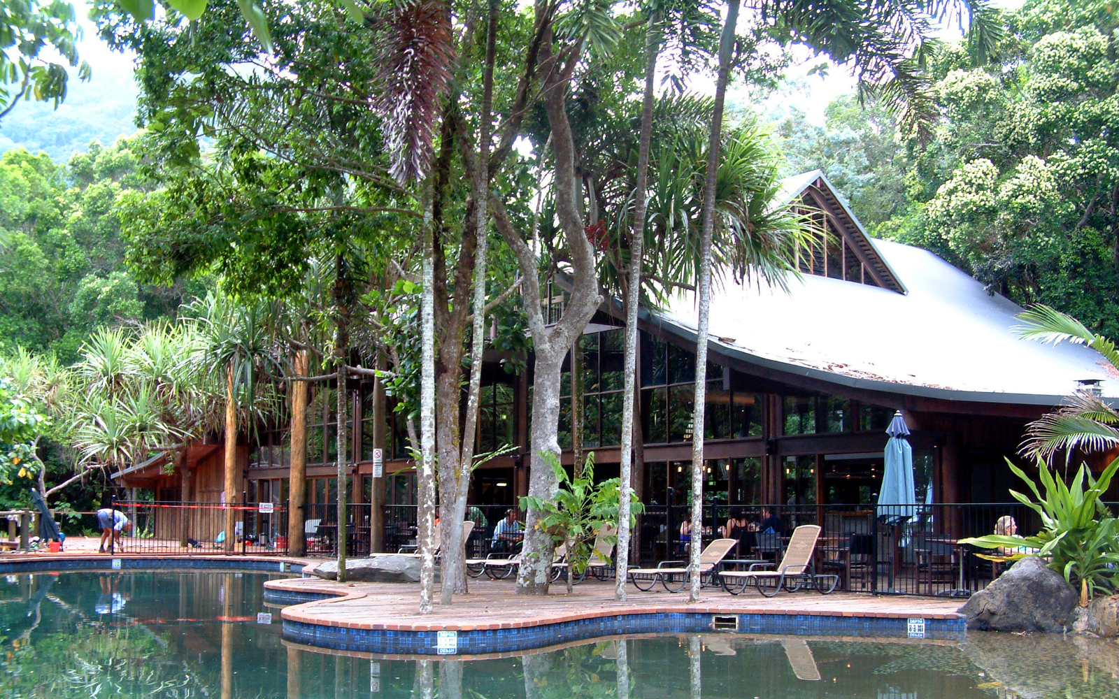 Coconut Beach Resort near Cape Tribulation, Queensland, Australia.